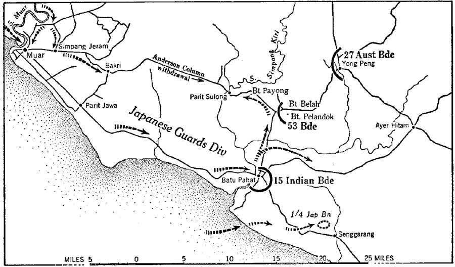 Allied dispositions and Japanese routes of attack during the Battle of Muar, 1942